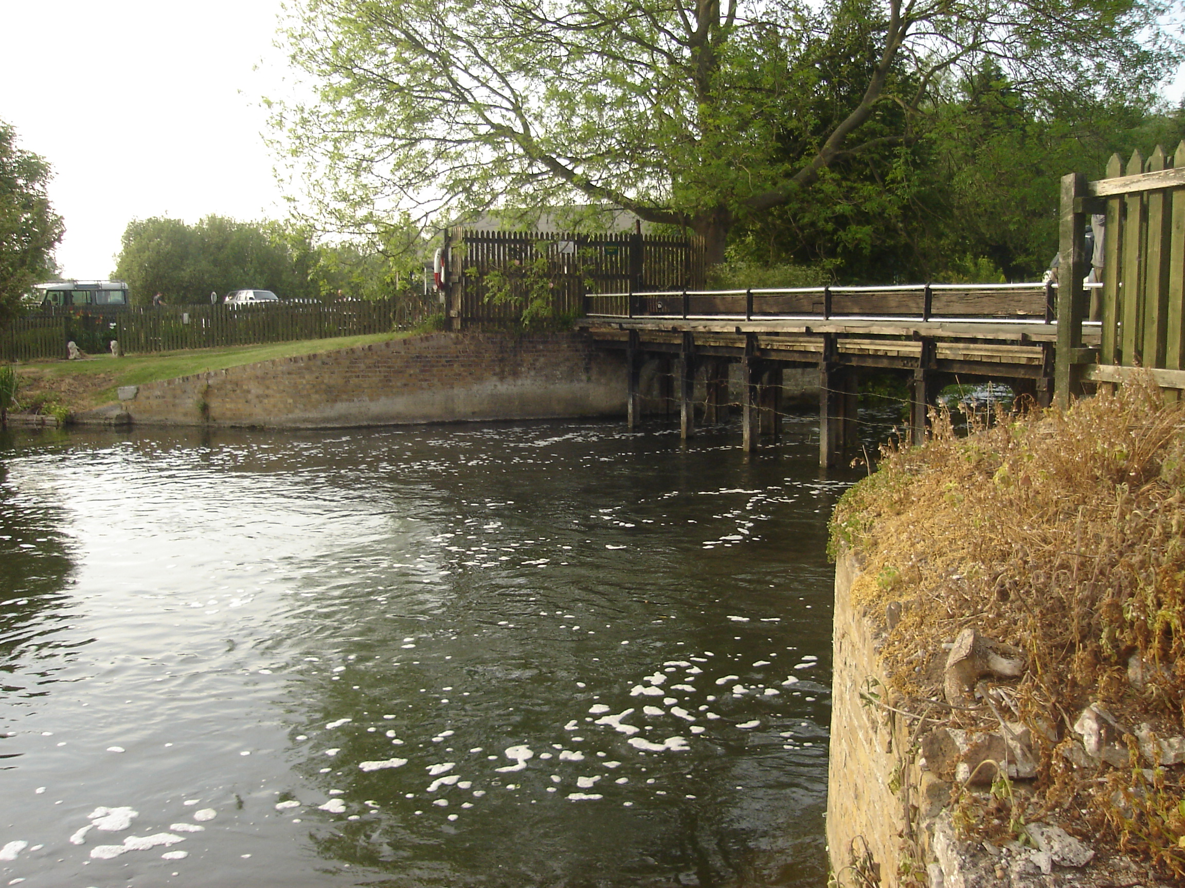 Picture of Carthagena Weir